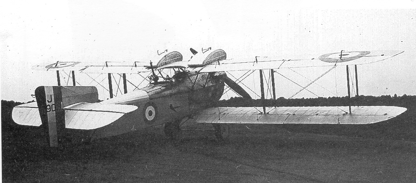 Fairey Fawn J6908 1923, lengthened fuselage anf over wing fuel tanks